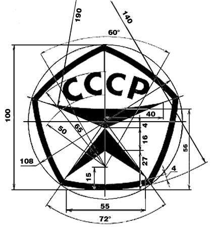 Mark of the Quality Mark of the USSR with the dimensions and angles